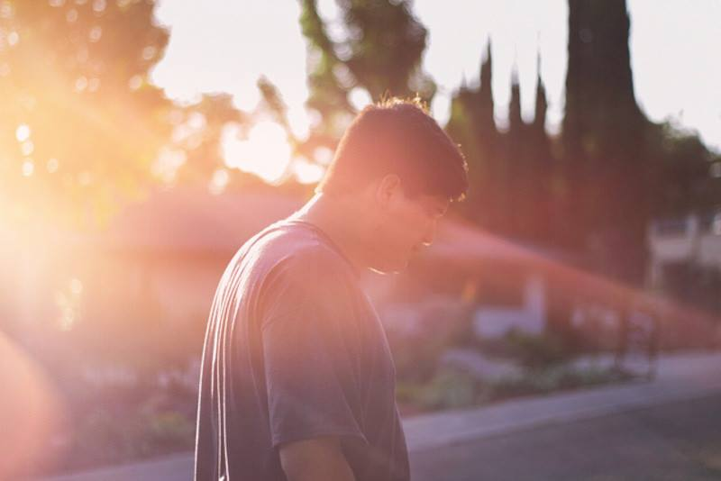 A picture of Cam Smith from Hotel Books